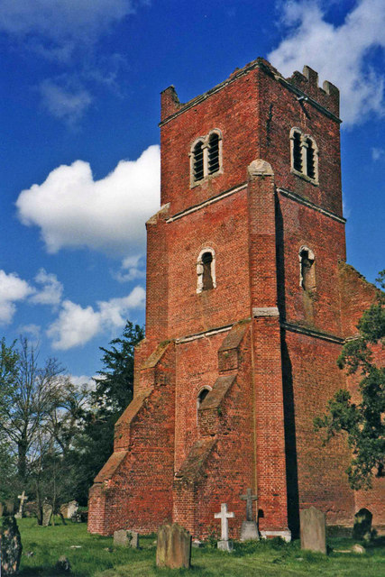 West tower of the former parish church of St John the Evangelist, Great Stanmore, Middlesex, seen from the southwest